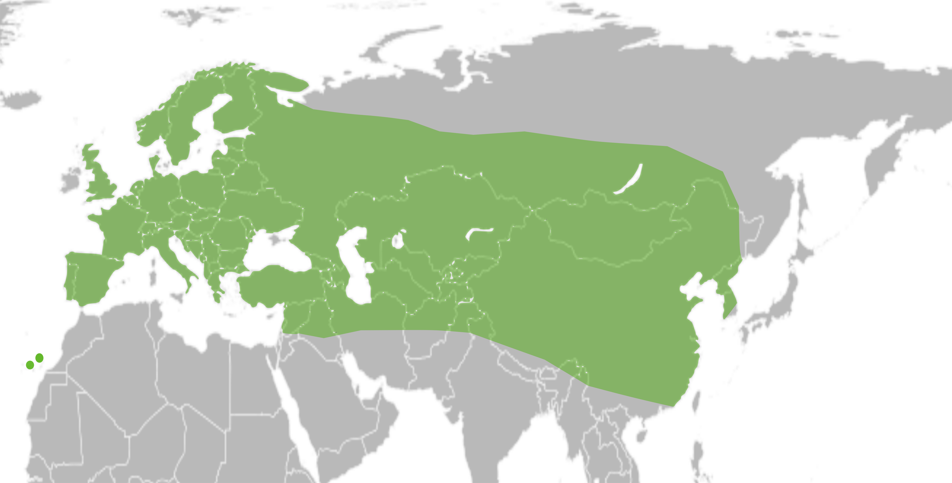 A distribution map for the beetle species Potosia cuprea. Original blank SVG map by author Frank Bennett Made with Inkscape